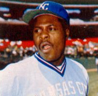 Professional baseball player John Mayberry